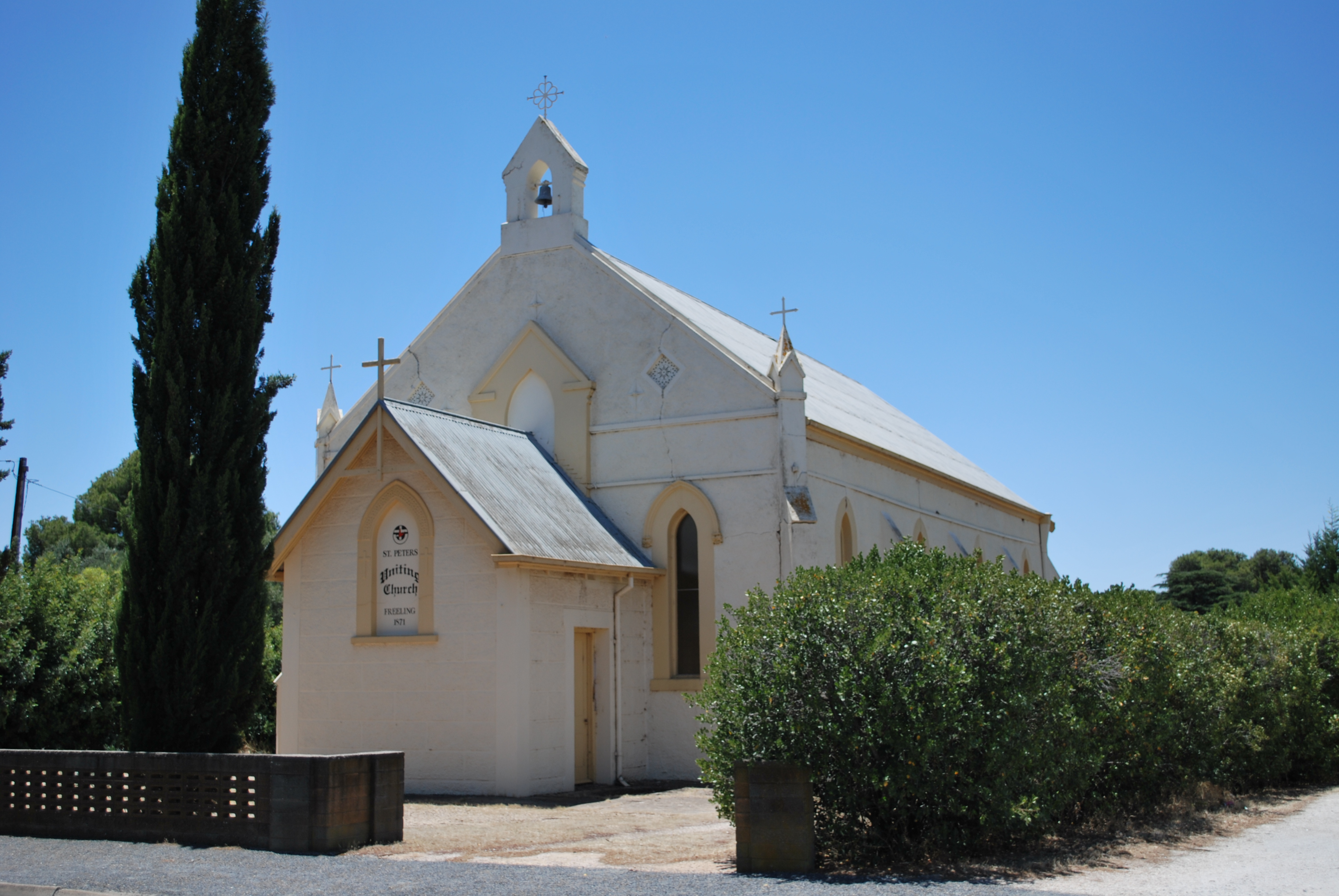 St Peter's Uniting church at Freeling, South Australia